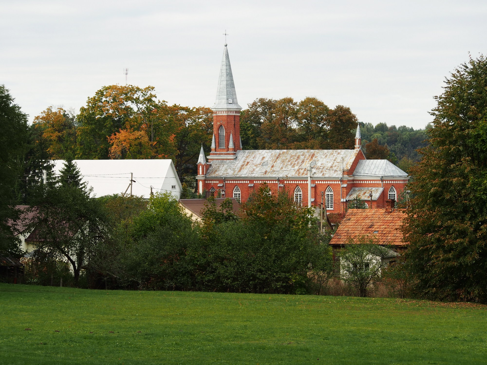 Church of the Exaltation of the Holy Cross in Gelgaudiškis